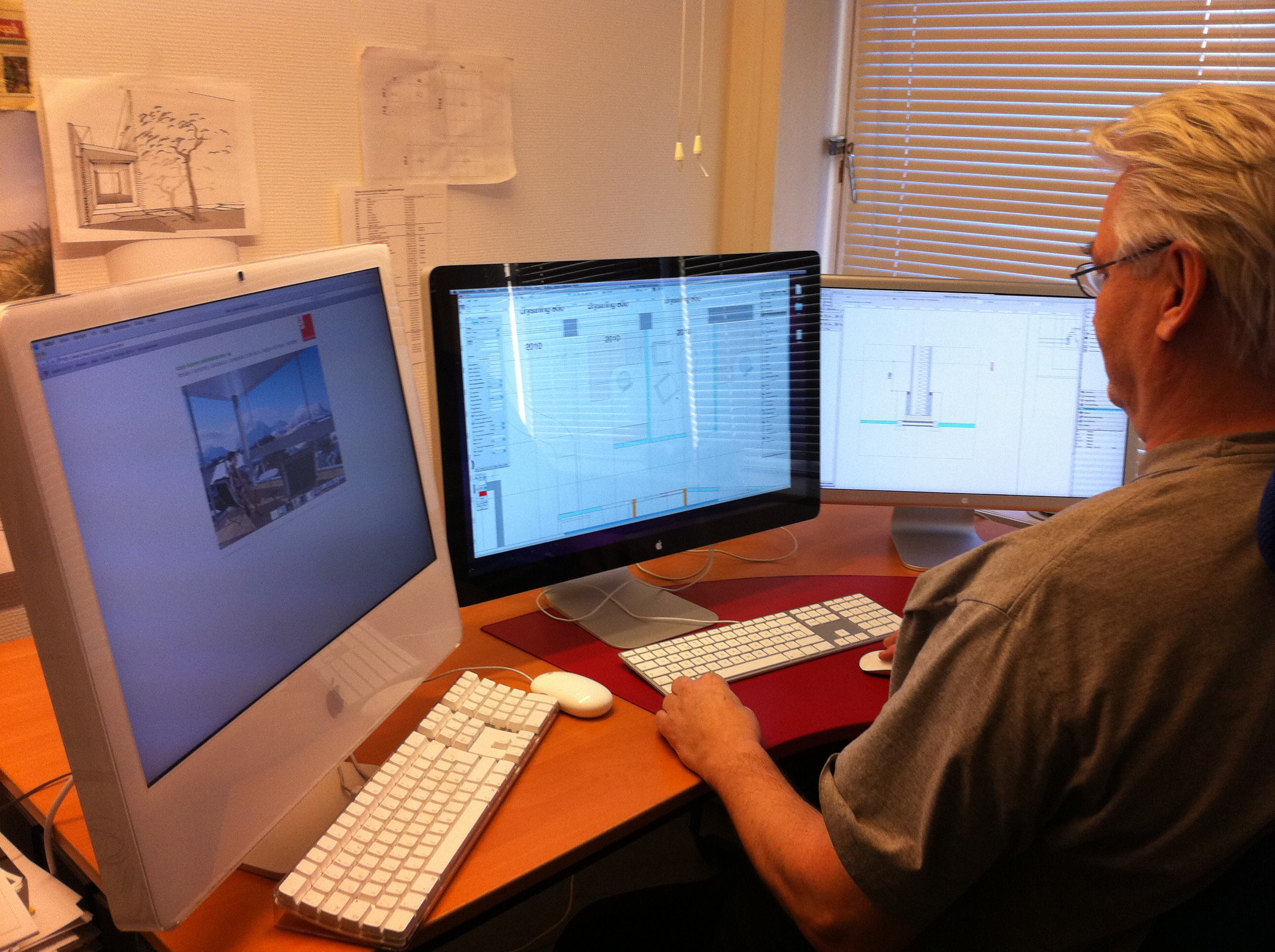 An architect working with CAD in 2011